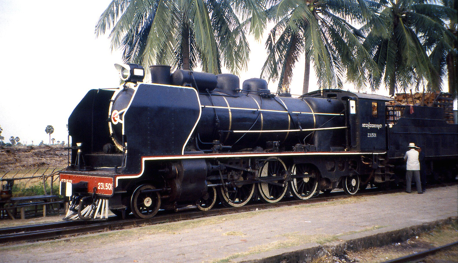 2-3-1 Steam in 2000. A Pacific.